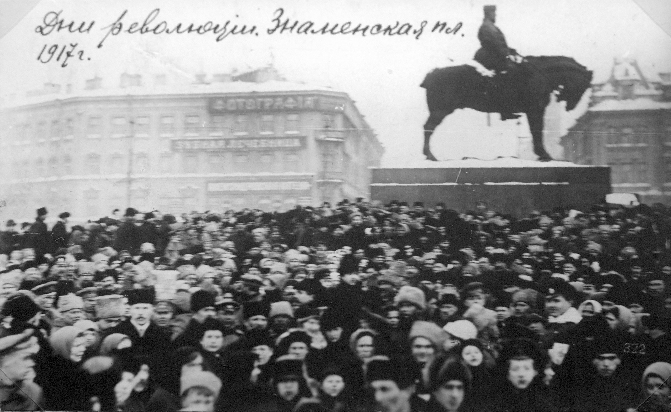 crowd gathering on Znamensky Square in front of statue of Tsar Alexander III